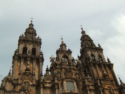 Cathedral Santiago de Compostela, April 2005 Eigen werk